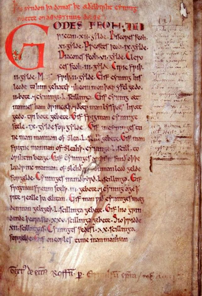 Opening page of the 7th century Law of Æthelberht